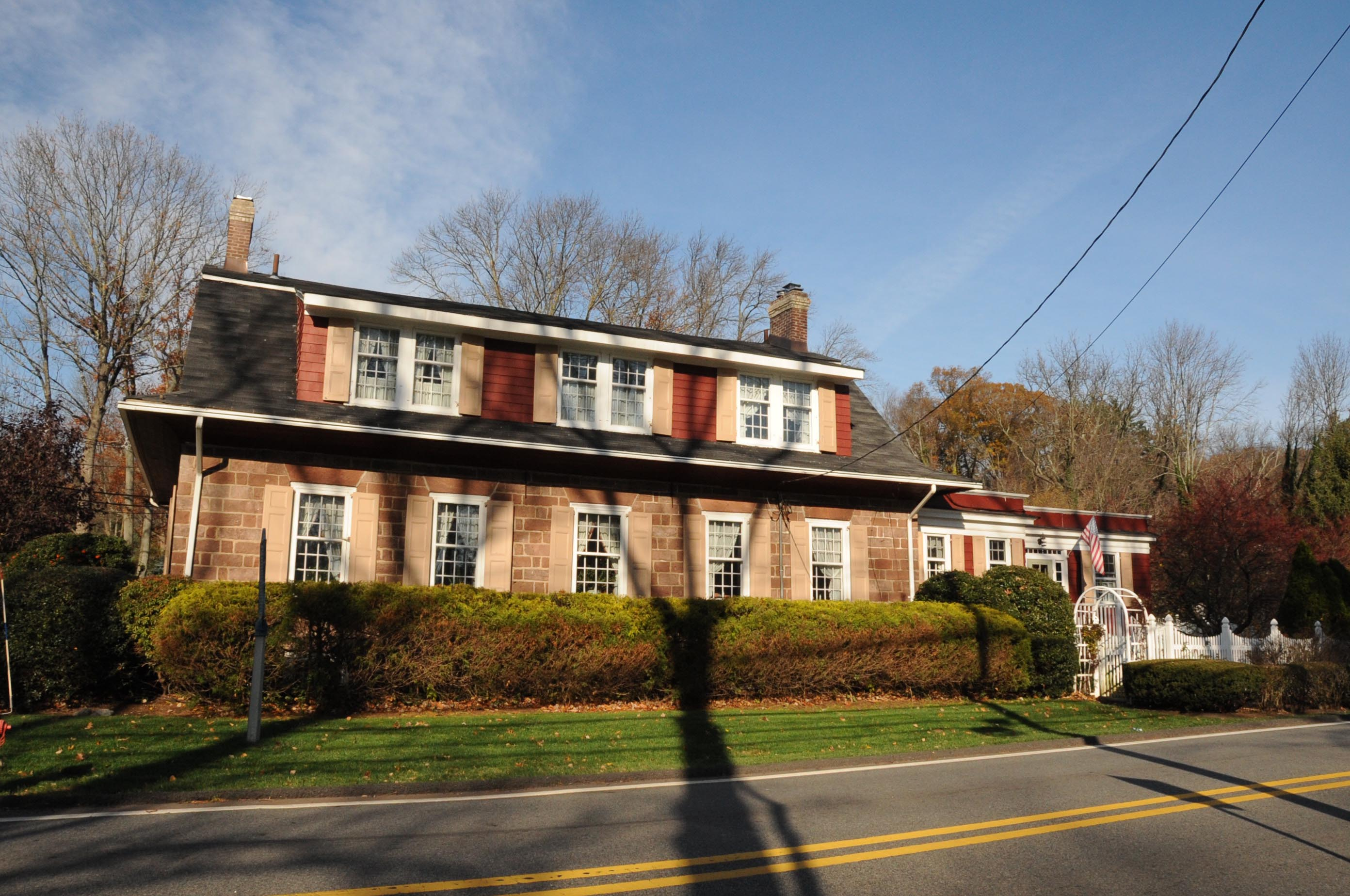 BUILT CIRCA 1796 BY BANTA WHO WAS A CARPENTER AND FARMER; BANTA WAS A CAPTAIN IN THE FRENCH AND INDIAN WAR. HIS SON INHERITED THE HOME AND IT REMAINED IN THE FAMILY UNTIL 1860